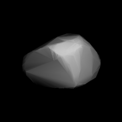 3D convex shape model of 8187 Akiramisawa, computed using light curve inversion techniques. J. Hanuš, J. Ďurech, M. Brož, B. D. Warner (June 2011). "A study of asteroid pole-latitude distribution based on an extended set of shape models derived by the lightcurve inversion method". Astronomy and Astrophysics 530: A134. ISSN 0004-6361. arXiv